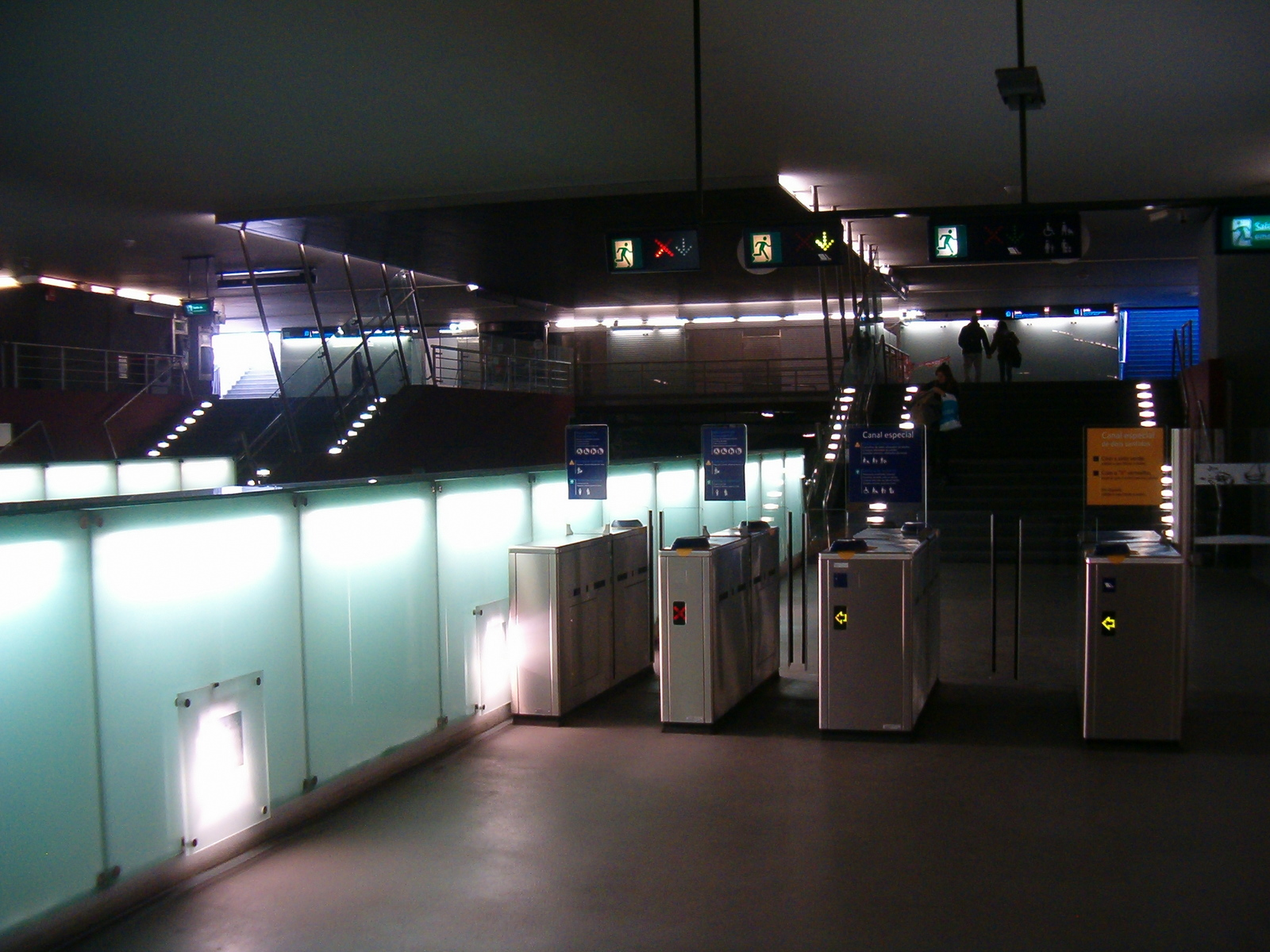 Metro station Roma (Lisboa)